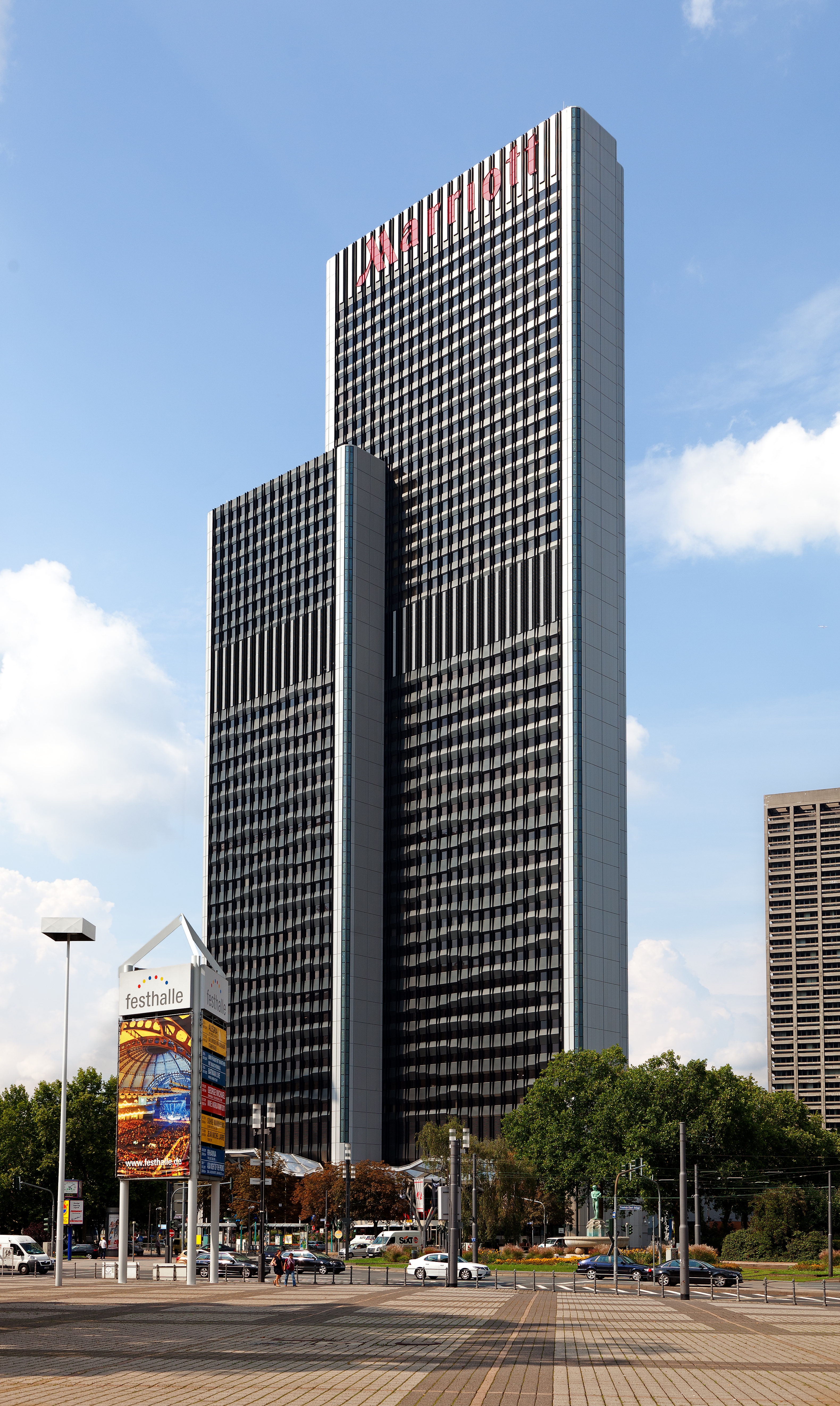 Westend Gate in Frankfurt, Germany